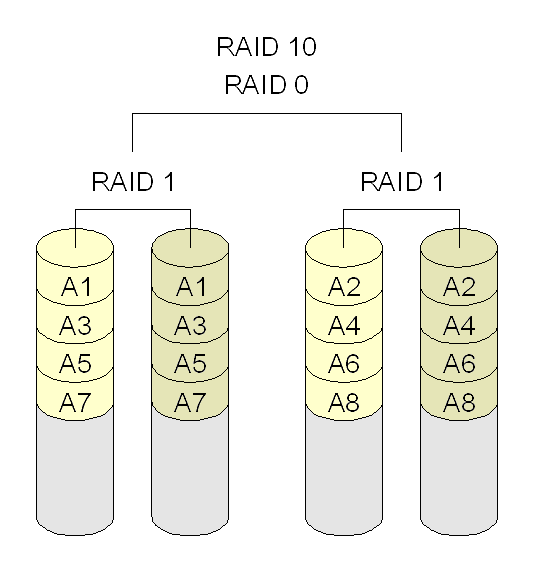 RAID 10 configuration